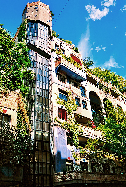 Austria, Vienna, Hundertwasserhaus